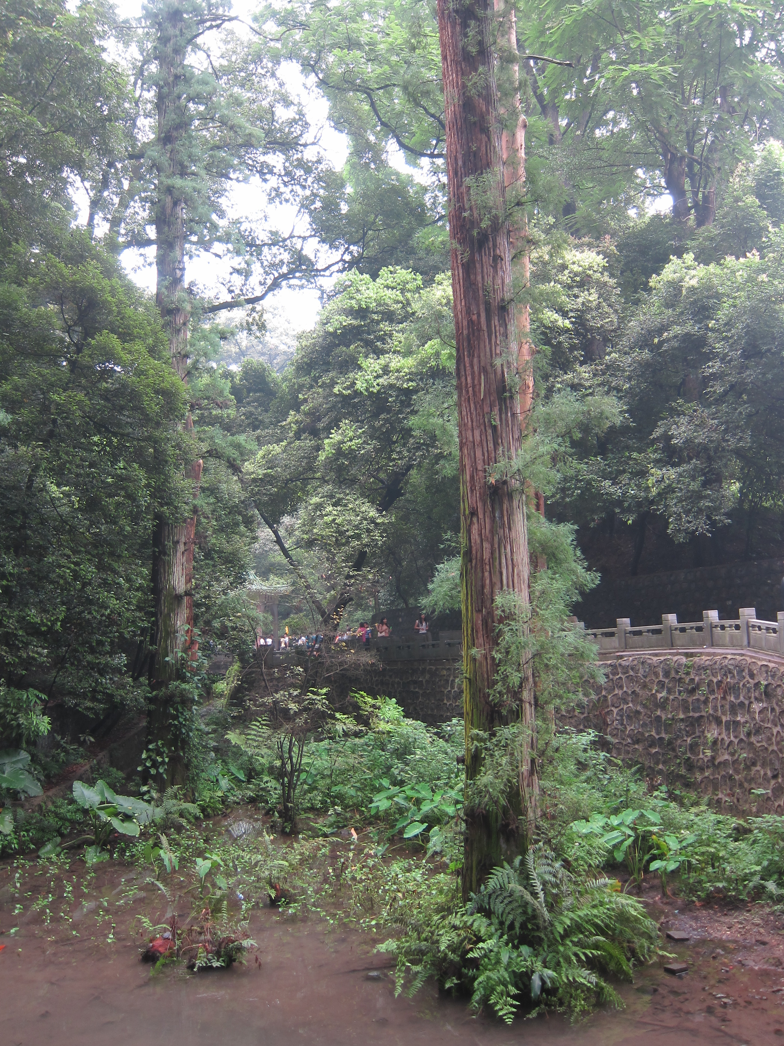 Chinese Swamp Cypress in Nanhua Temple